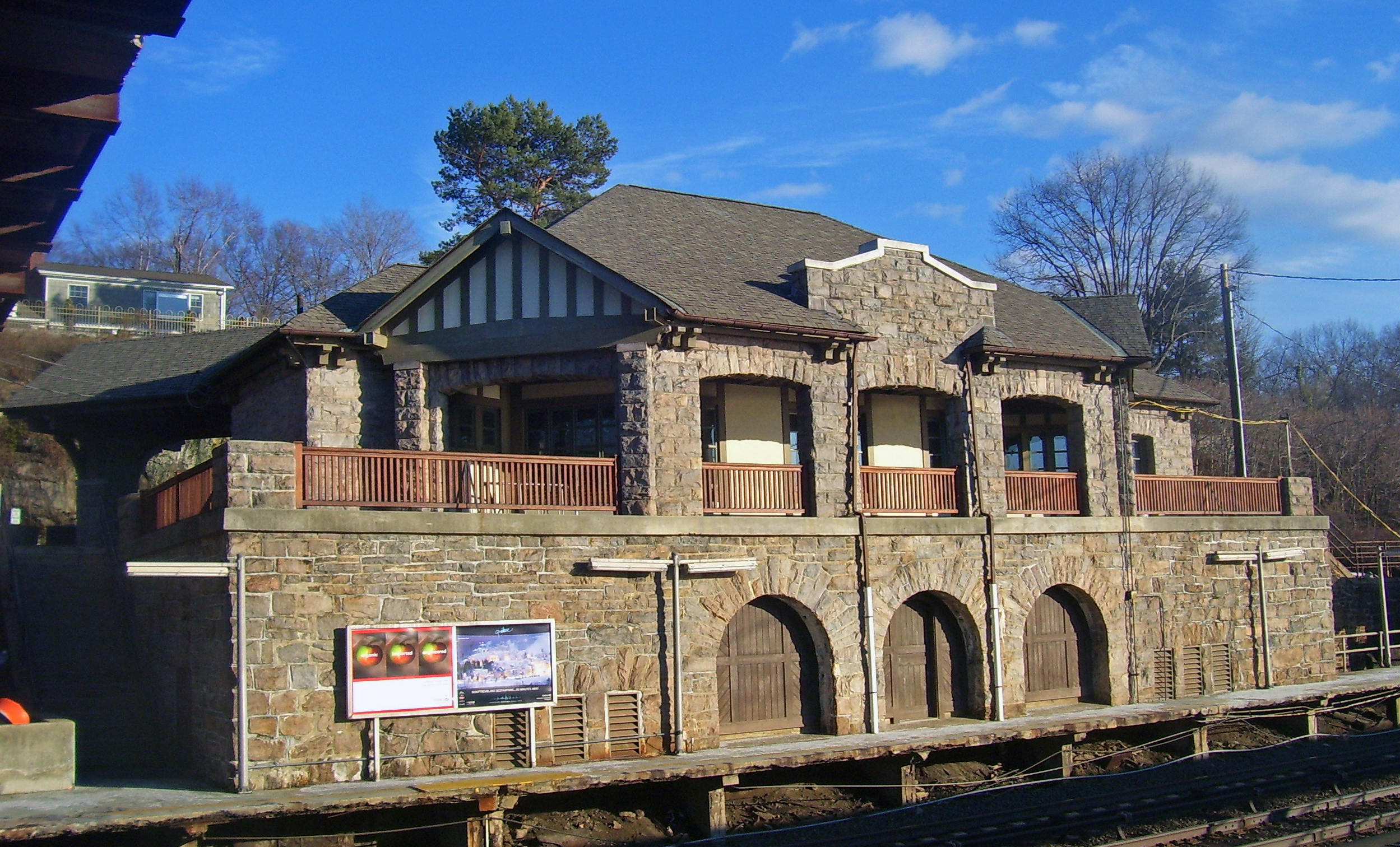 Main building of Philipse Manor station on Metro-North's Hudson Line commuter rail service, Sleepy Hollow, NY, USA. No longer used for any rail-related functions; instead it is the office of a local writers' group.